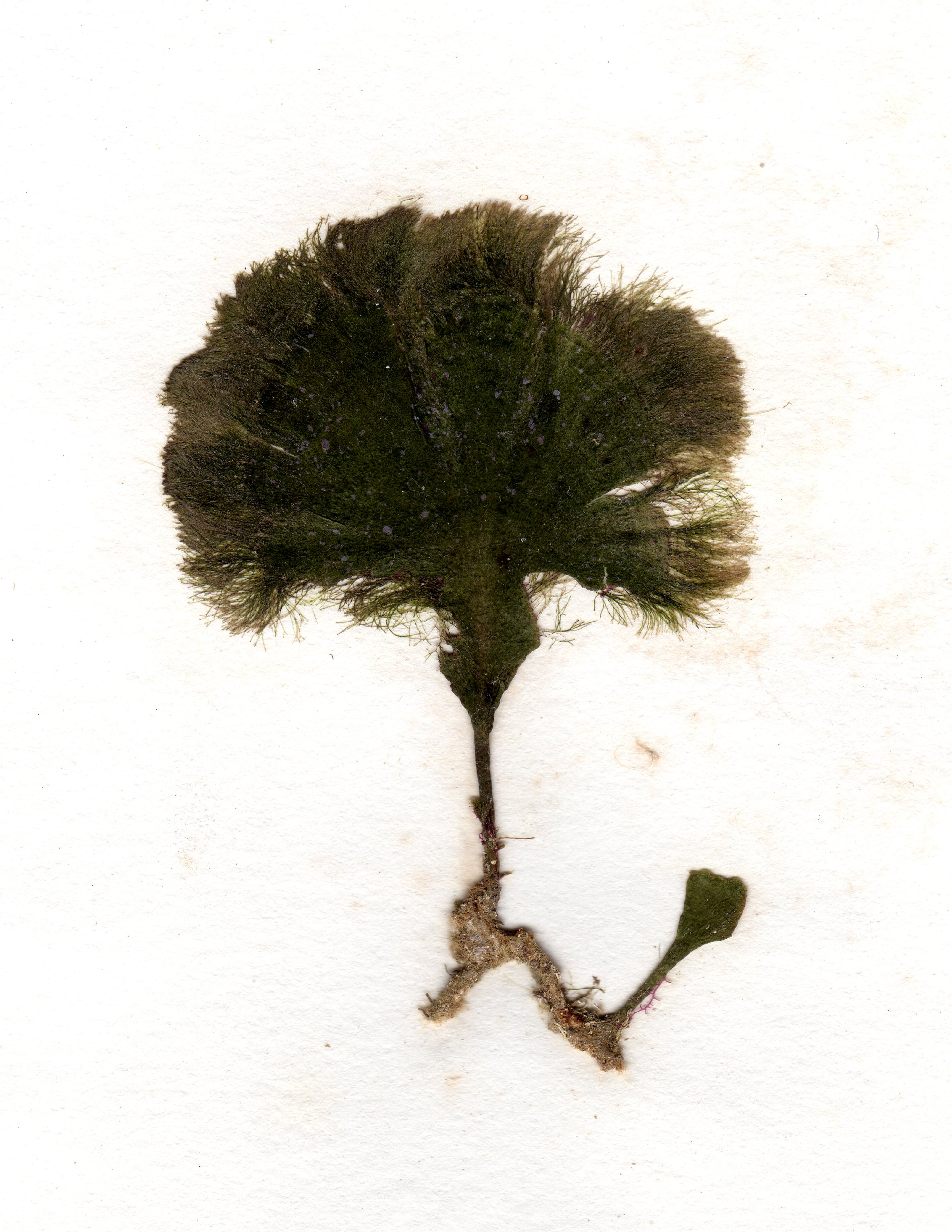 Udotea petiolata = Flabellia petiolata, personnal herbarium item collected near Villefranche-sur-mer